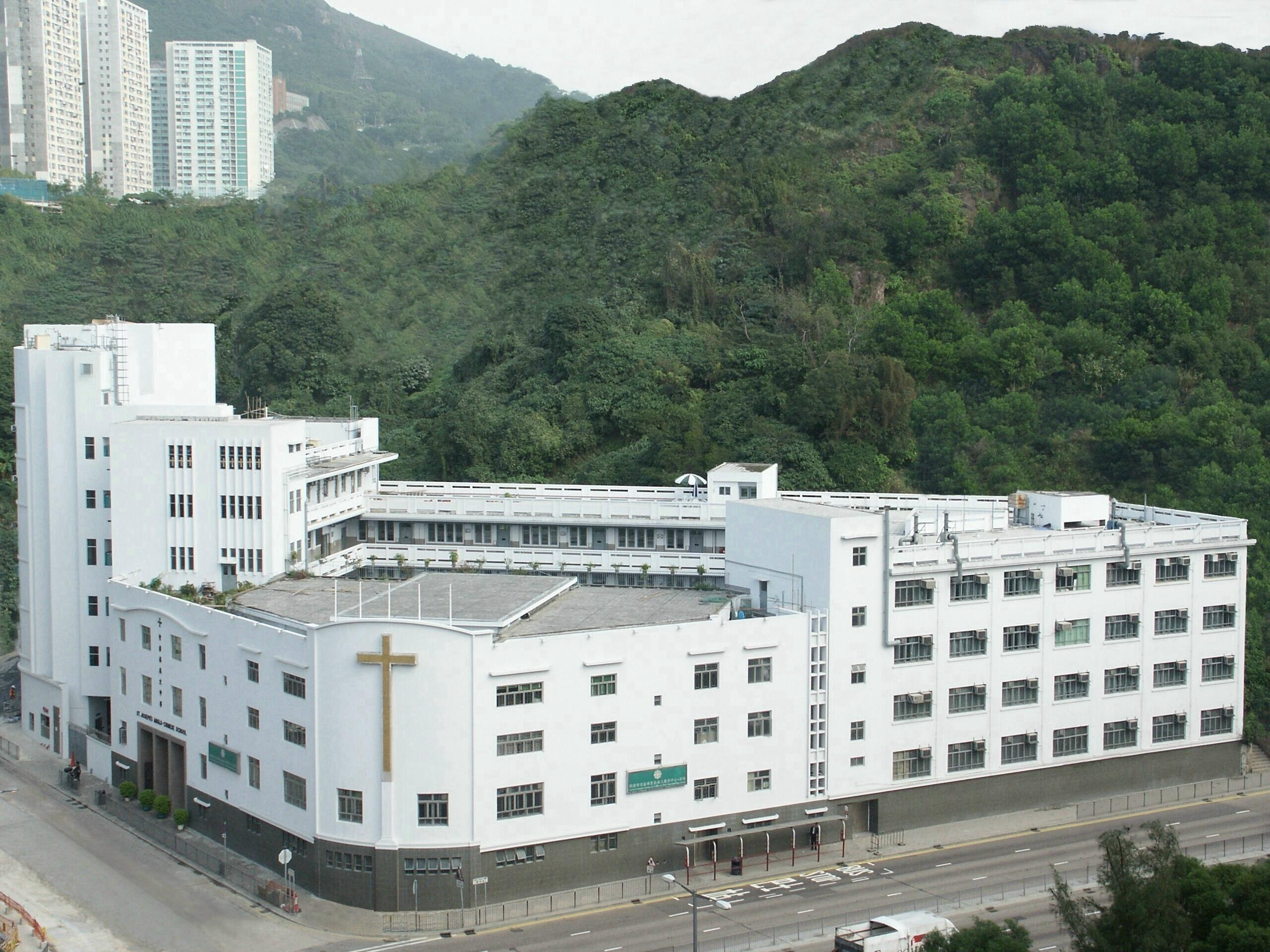 Hong Kong St. Joseph's Anglo-Chinese School Photo